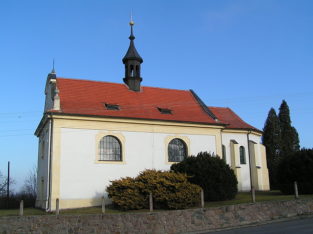 Saint George church in village of Vápno (near Přelouč), Pardubice District, Czech Republic